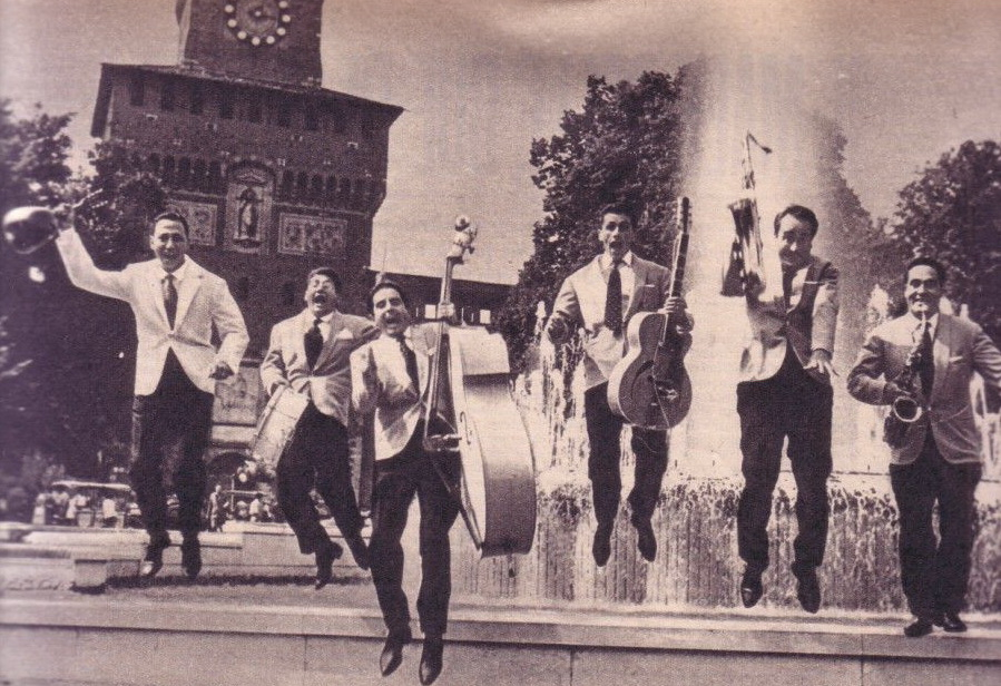 Italian singer Renato Carosone and his band in Milan